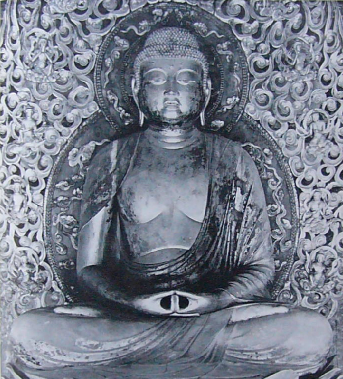 Amitaabha Buddha about 284cm, Wood gilt, BODY height, ACE1053